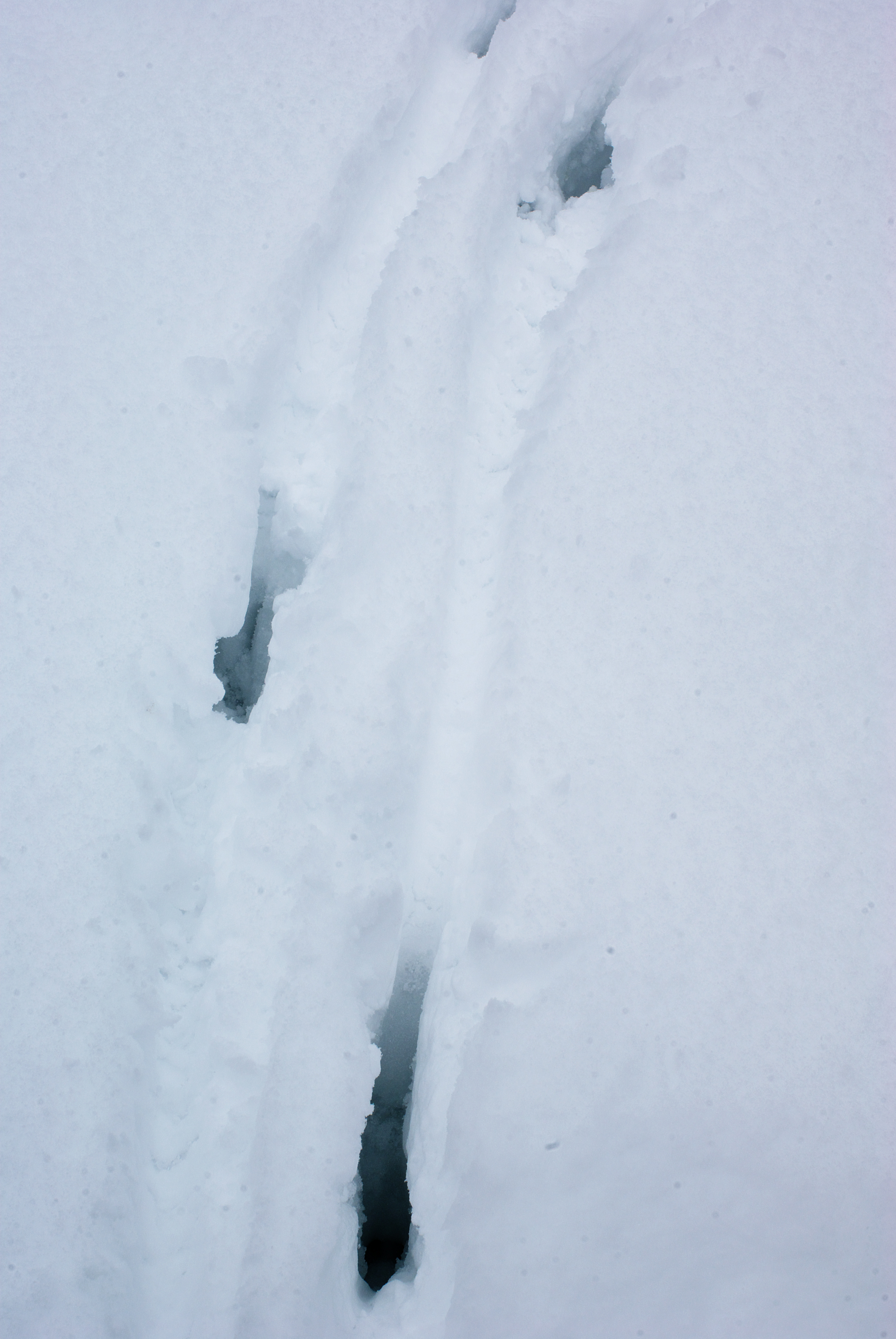 Bosco Chiesanuova (Grietz Dossetti Tinazzo) Lessinia VR Italy 2013-04-01 photo CTG ACA LESSINIA Paolo Villa